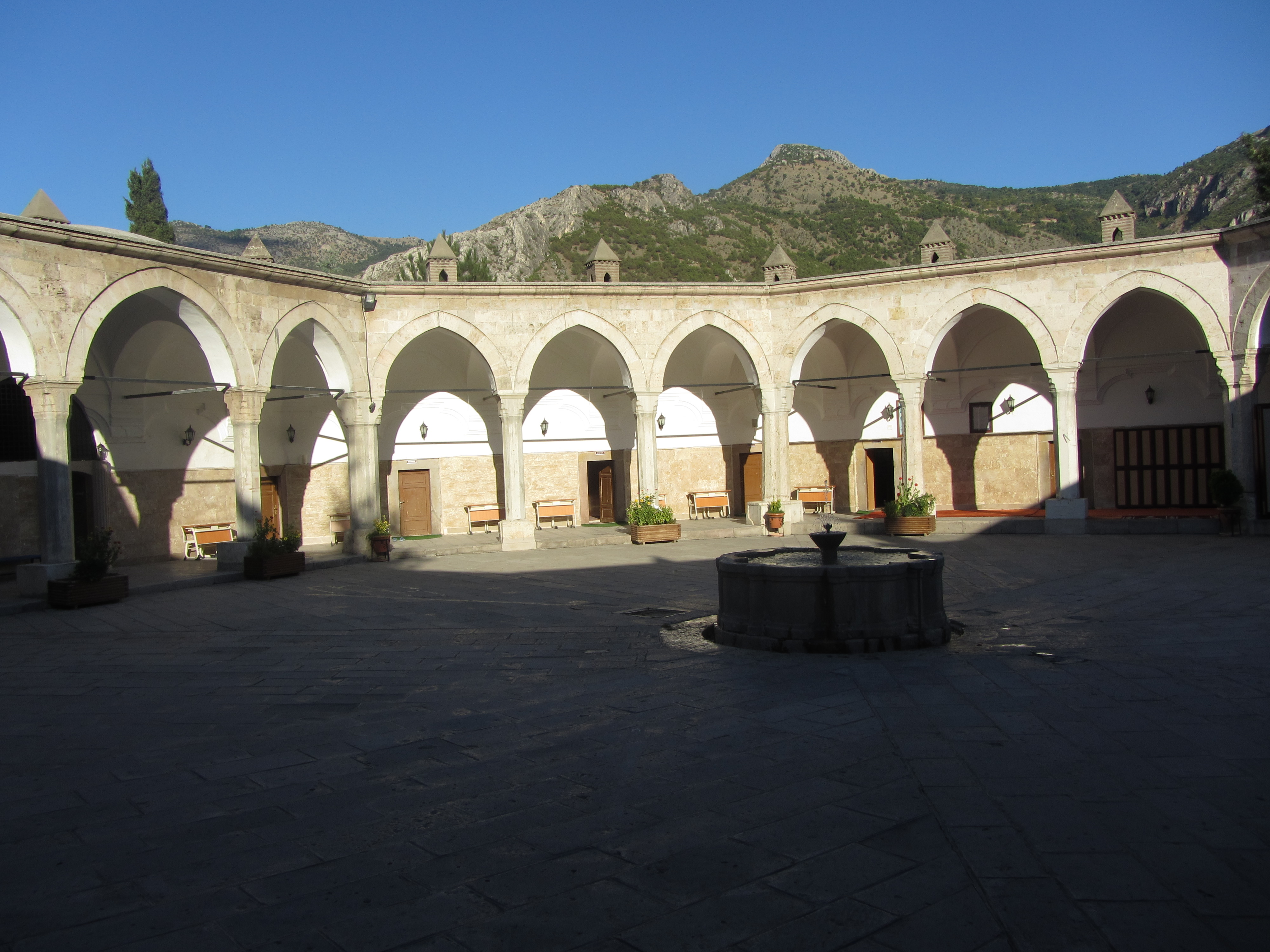 Kapı-Ağası-Madrasah in Amasya